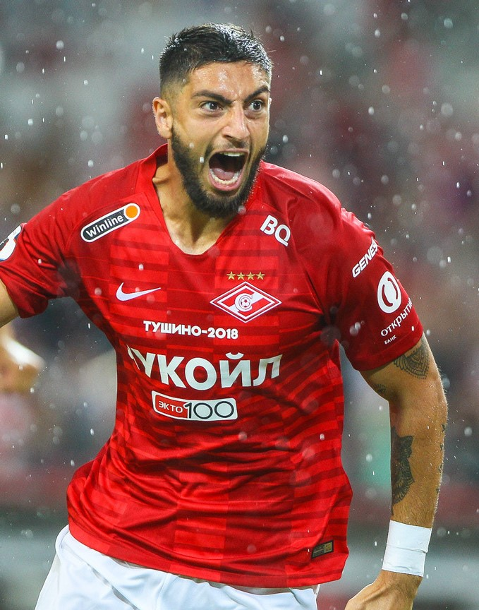 Samuel Gigot